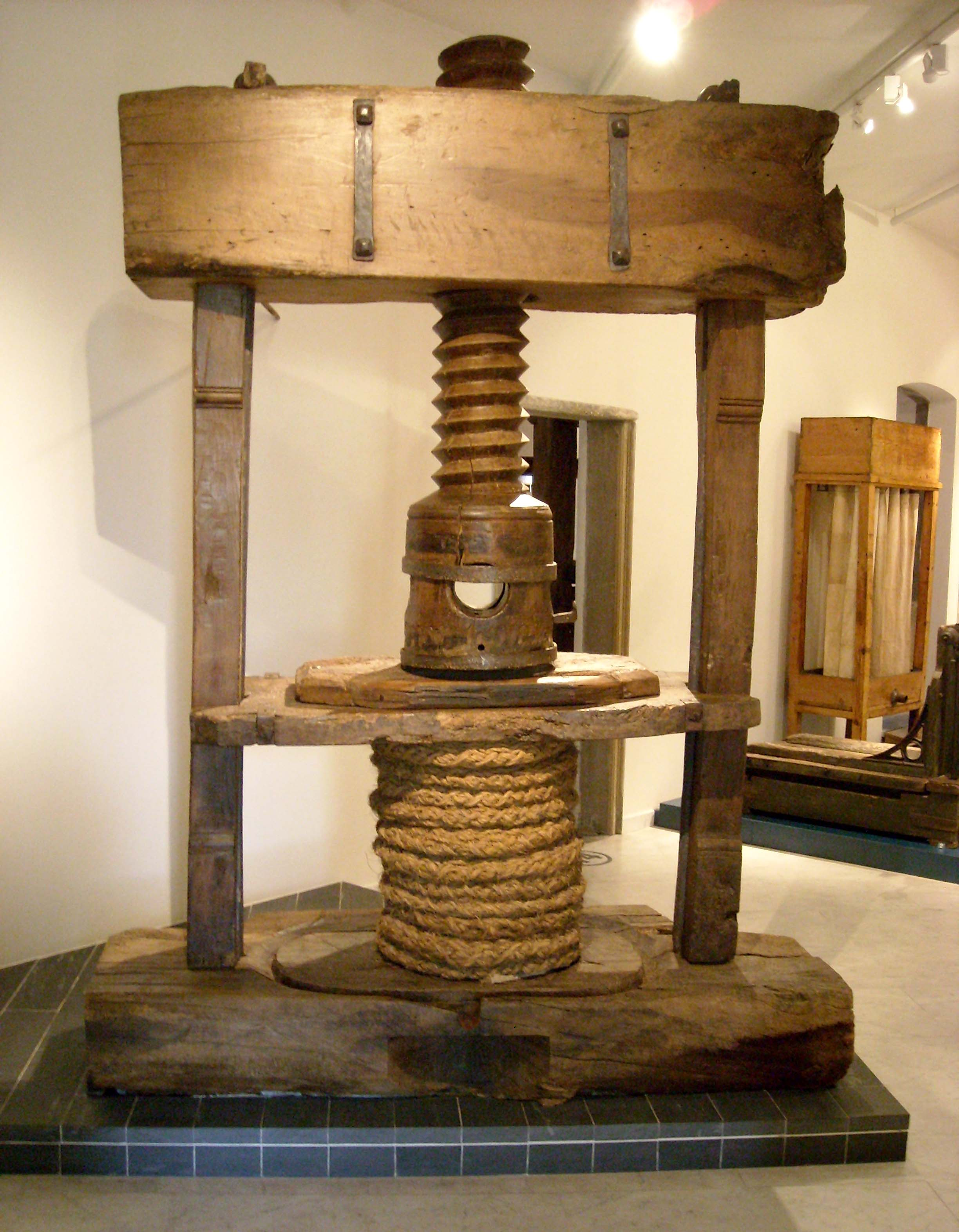 Oil press used to extract oil from olive past during the Middle ages in the province of Imperia, Liguria, Italy.